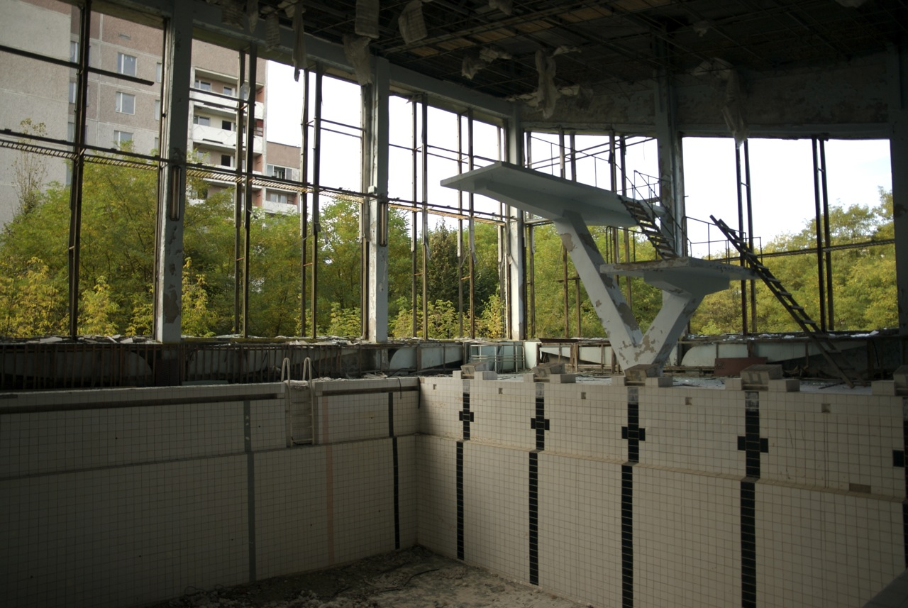 Former public swimming hall in now deserted city Pripyat.